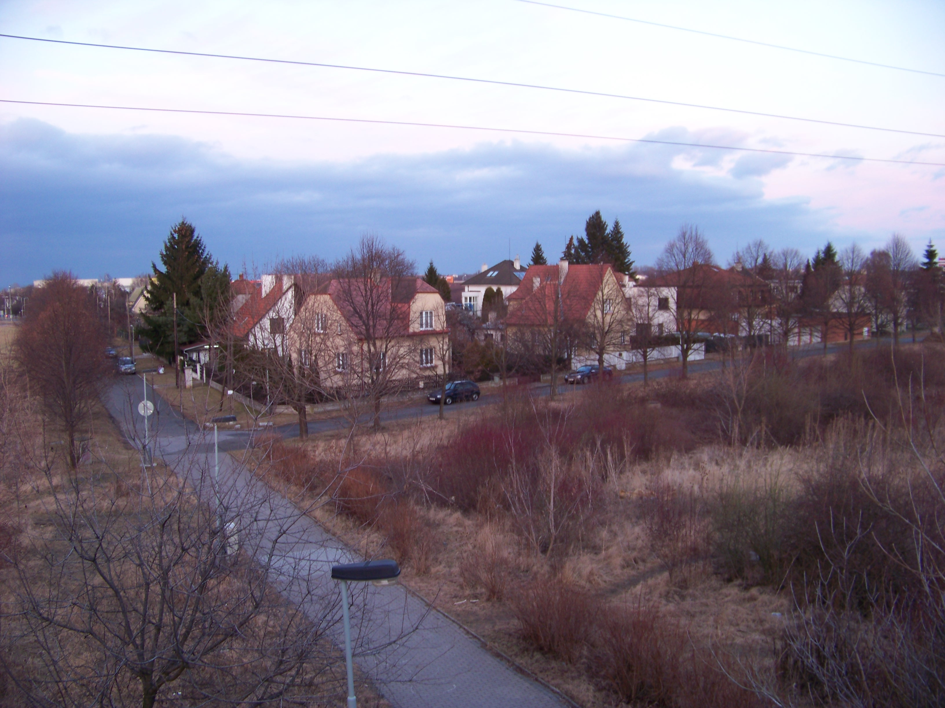 Prague-Letňany, the Czech Republic. Nový Prosek, Opočenská and Broumovská street.